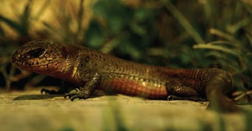 Euspondylus chasqui, holotype male (CORBIDI 06963).